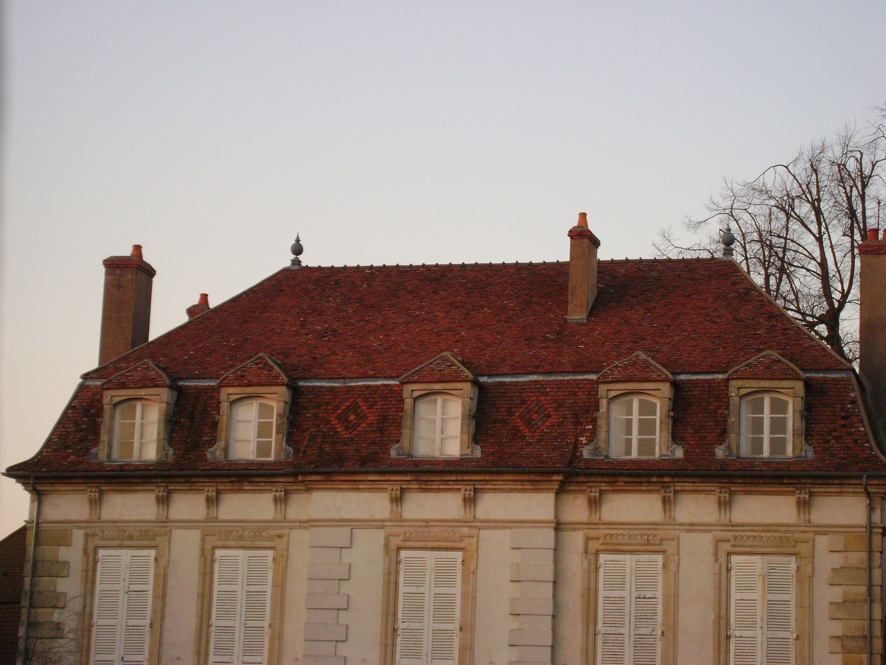 Burgondy roof in Avallon (Yonne - France)